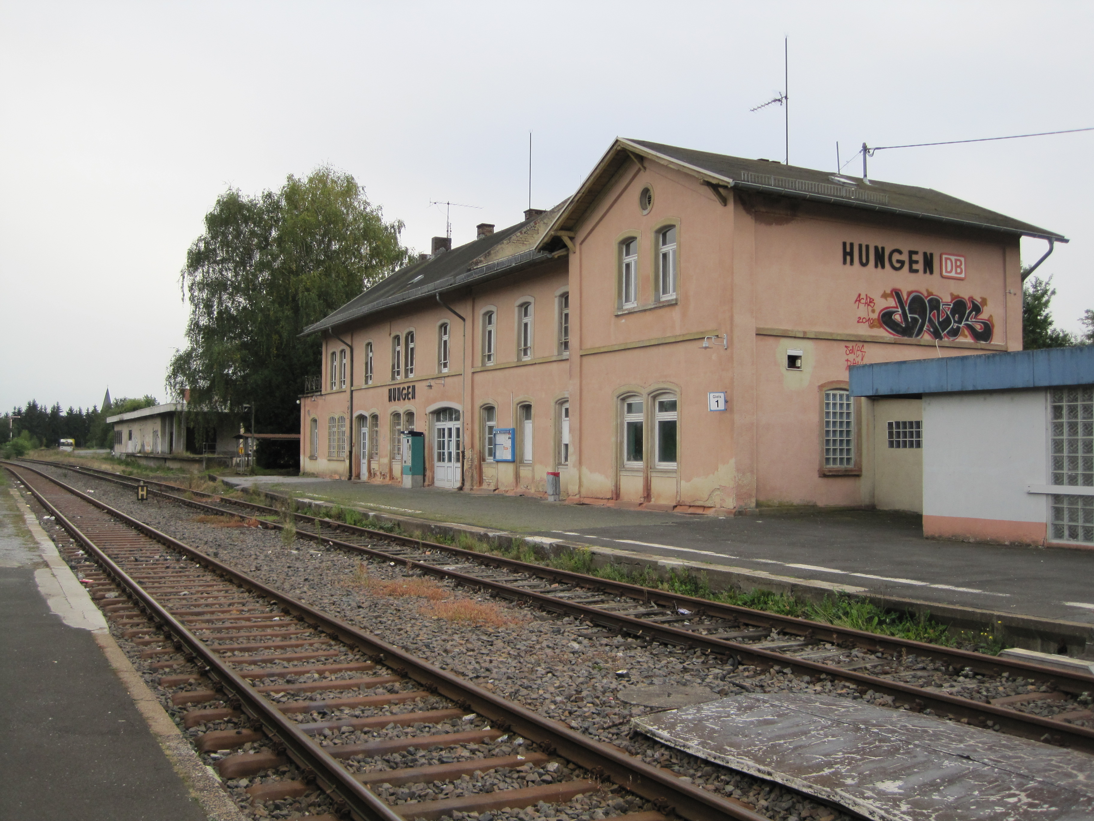 Hungen station, Hungen, Germany check usage